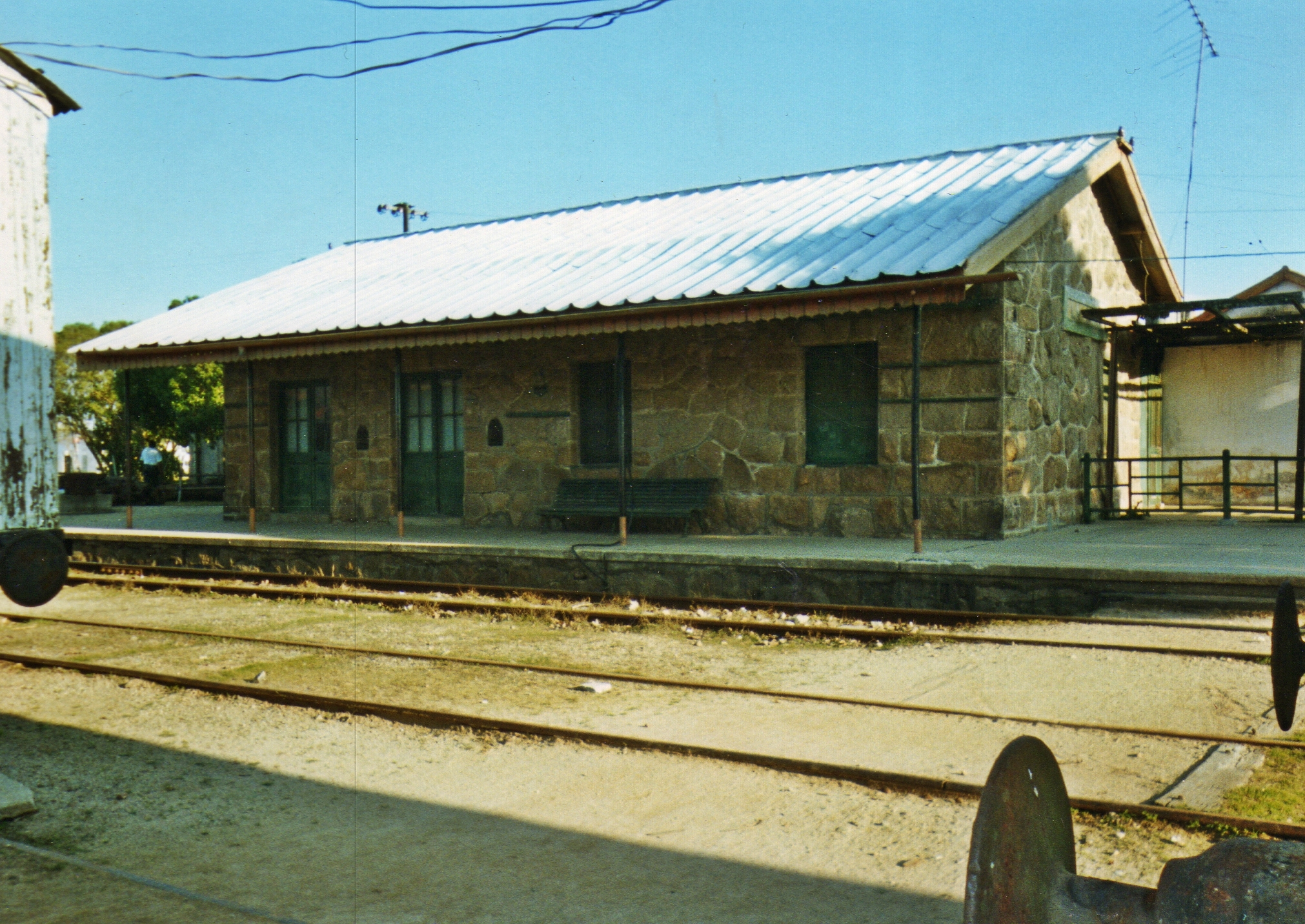 Train Station in La Cruz UY